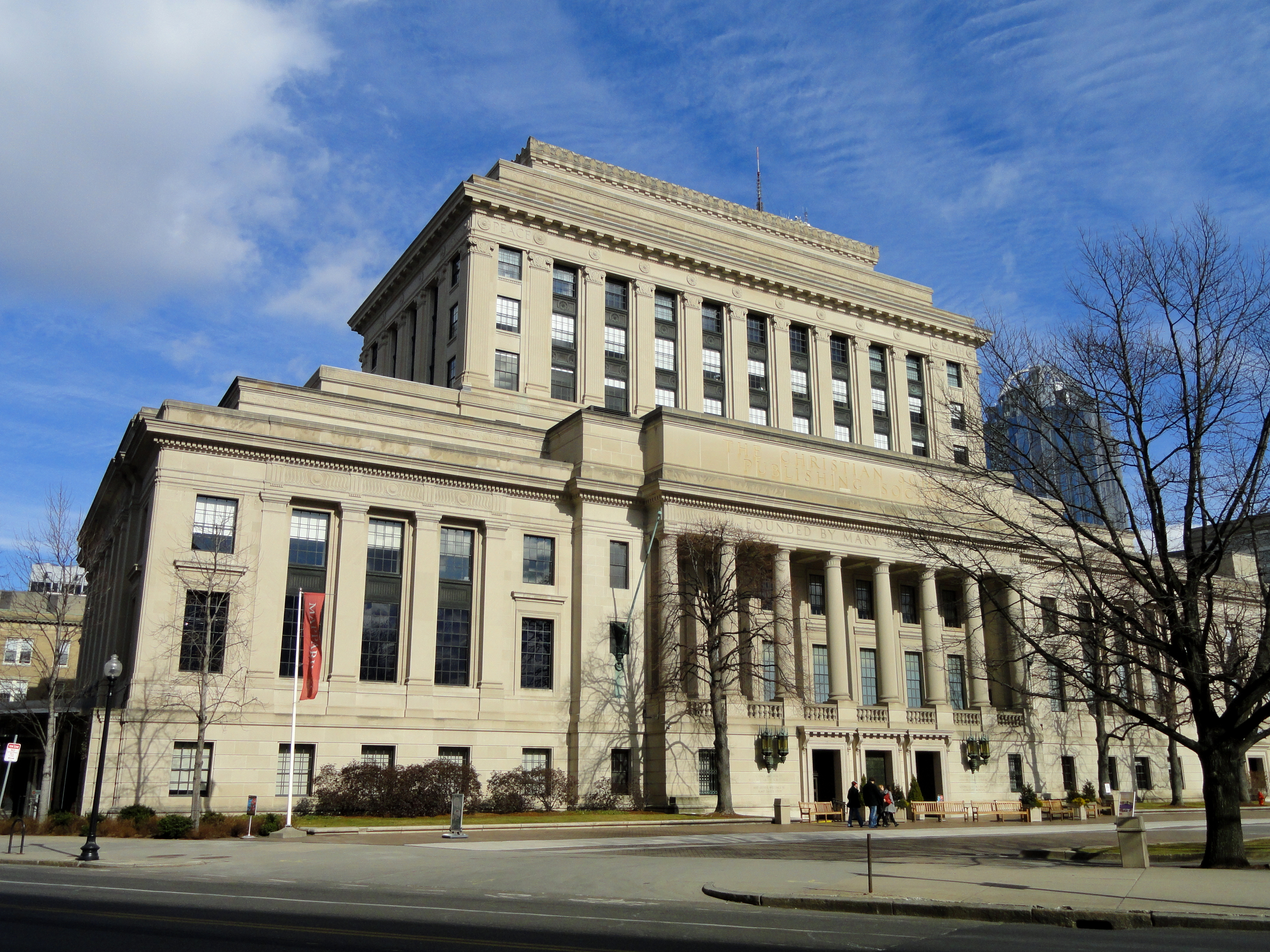 The Christian Science Publishing Society of The First Church of Christ, Scientist, Boston, Massachusetts, USA.